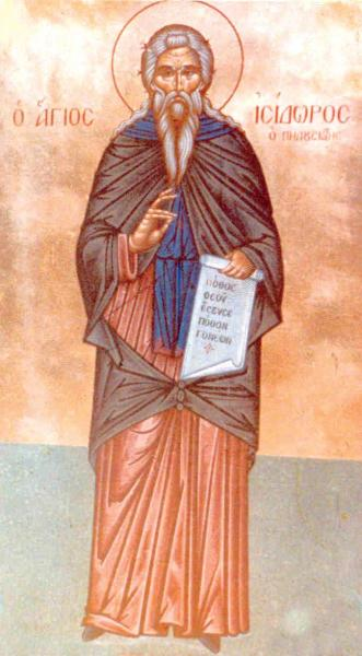 Isidore of Pelusium (ortodox icon)